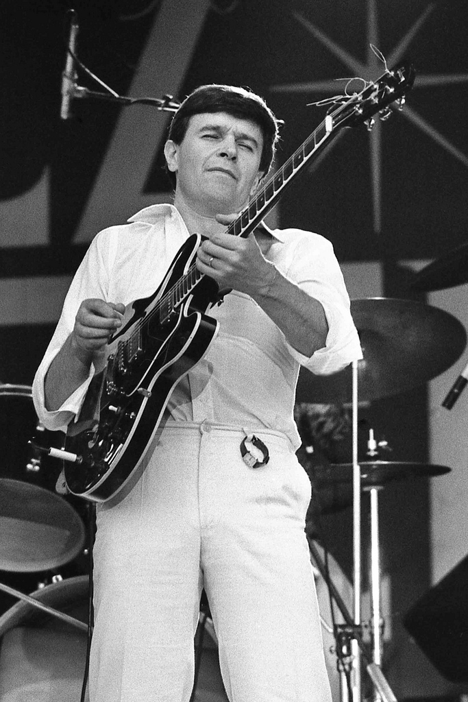 John Mclaughlin performing in his One Truth Band, at the Jazz Bilzen in The Netherlands, 1978